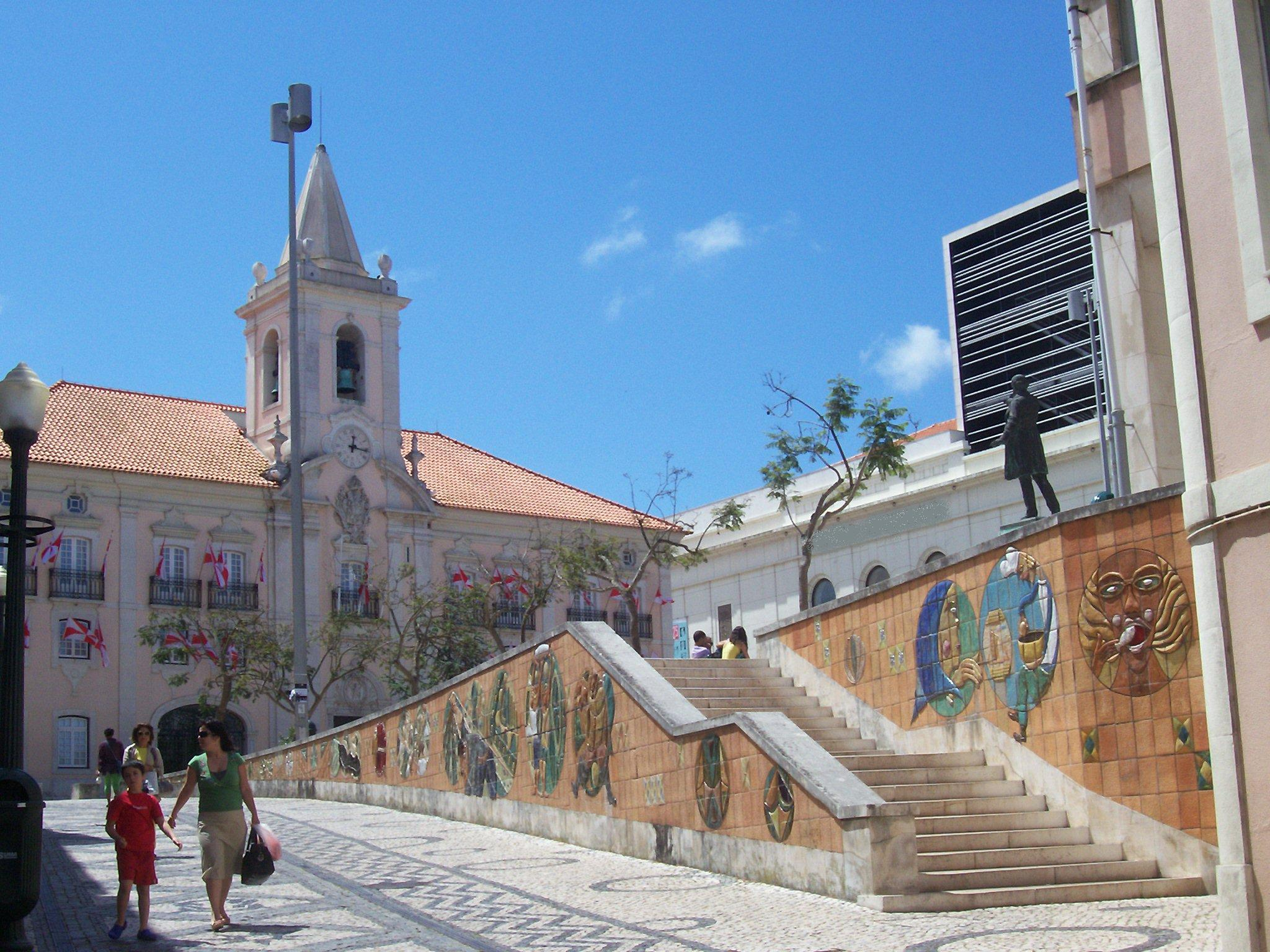 Town hall, Aveiro, Portugal